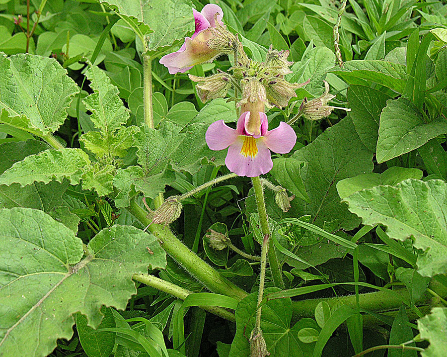 In context at